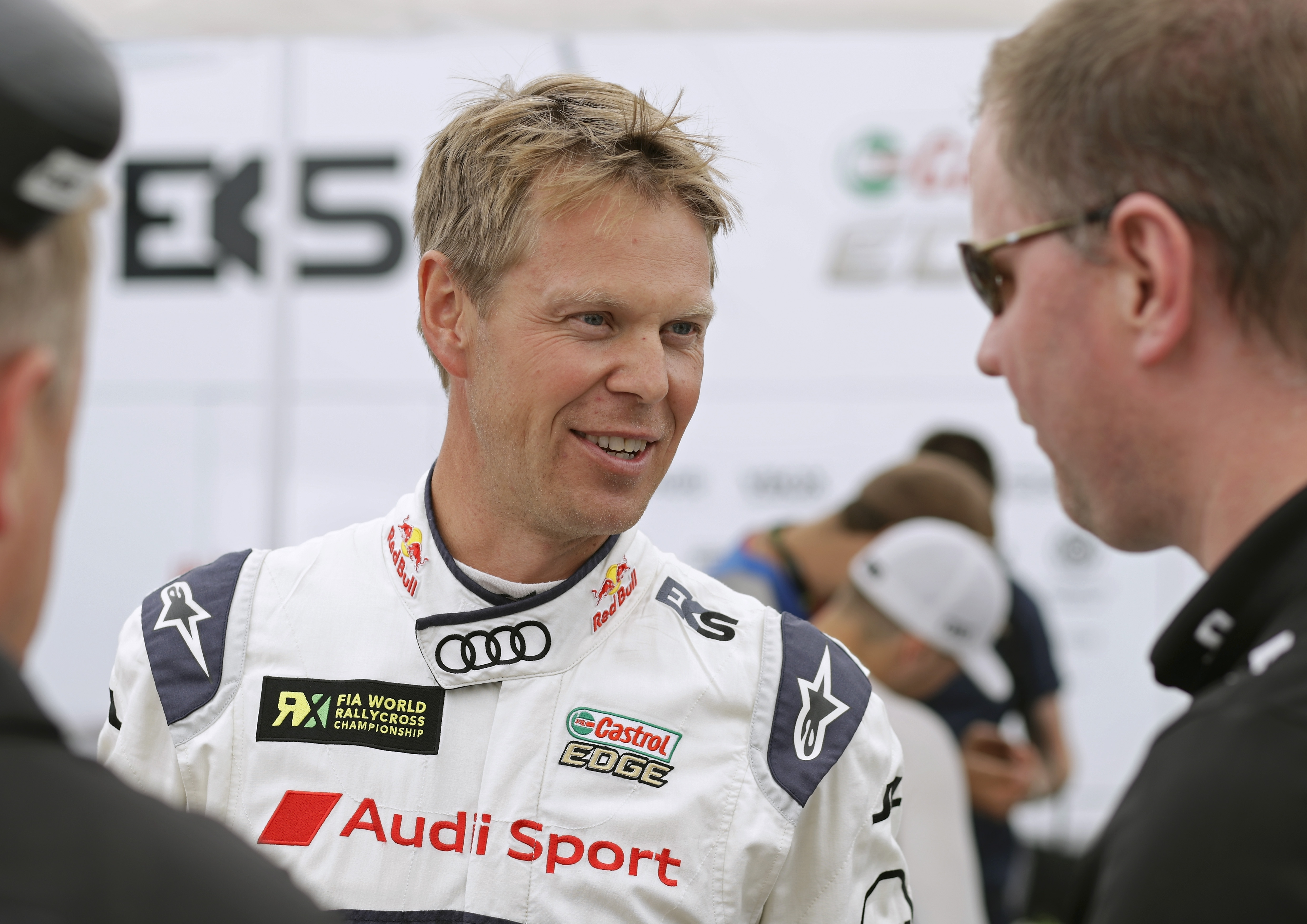 2017 FIA World Rallycross Championship // Round 07, Höljes // Credit: EKS/Bodo Kräling